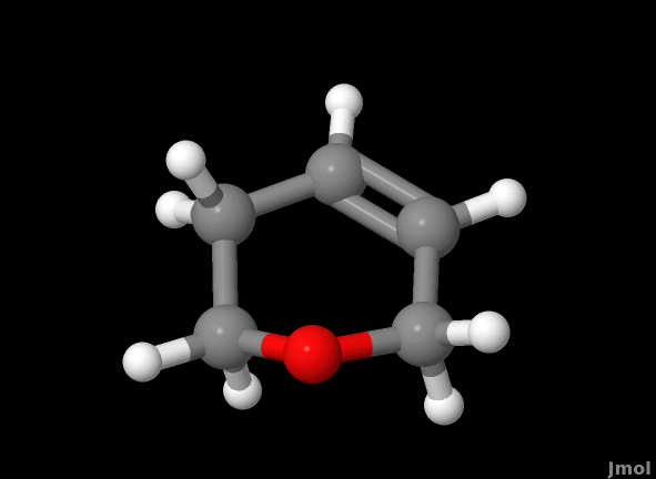 IUPAC Name: 3,6-dihydro-2H-pyran